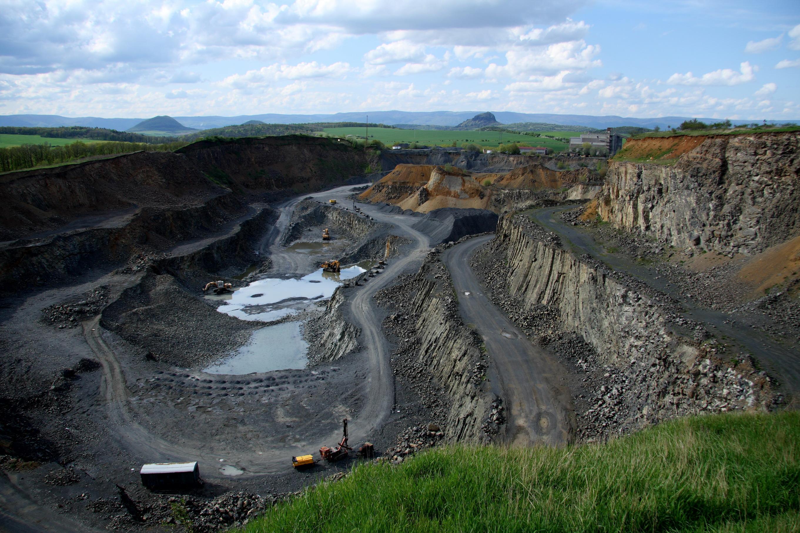 Quarry near Měrunice